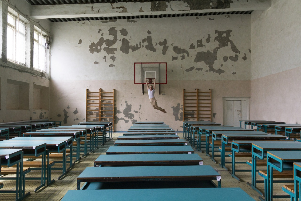 Performance in Gyumri, Armenia